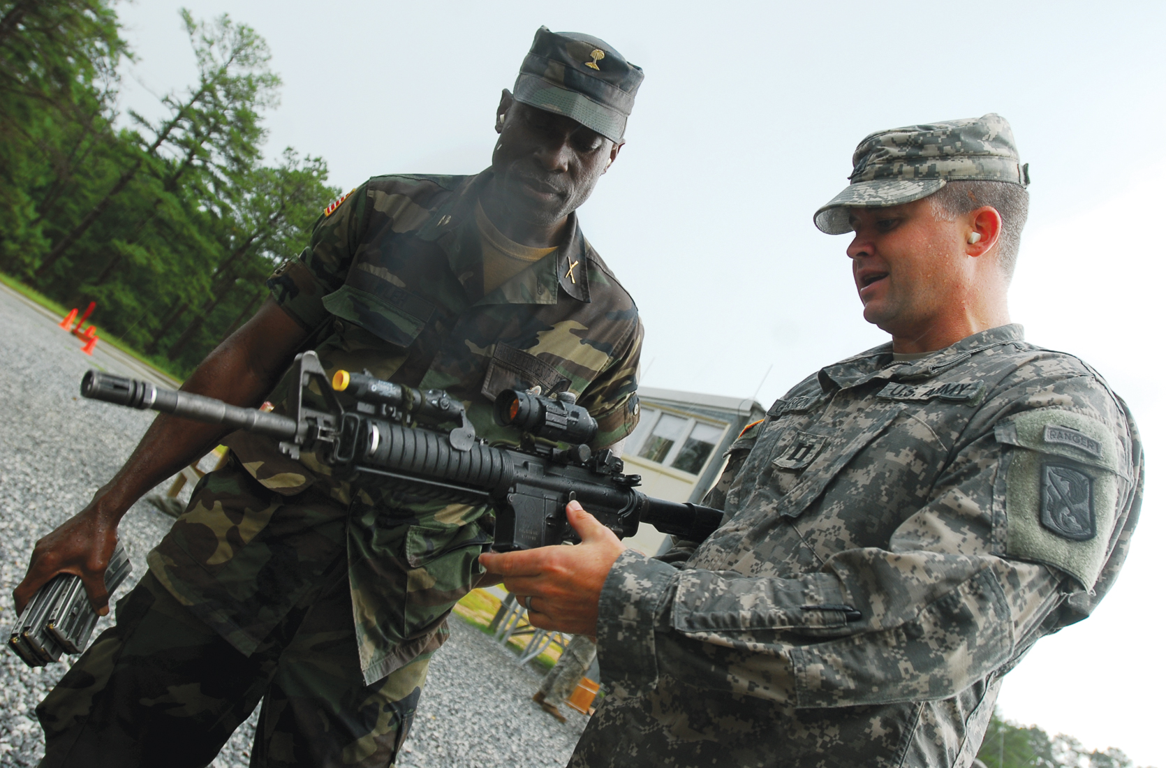 Armed Forces of Liberia Maj. Andrew Wleh and Capt. Ryan Gamston, commander of B Company, 2nd Battalion, 19th Infantry Regiment, discuss marksmanship training during Wleh's visit. Photo Credit: Kristin Molinaro, The Bayonet